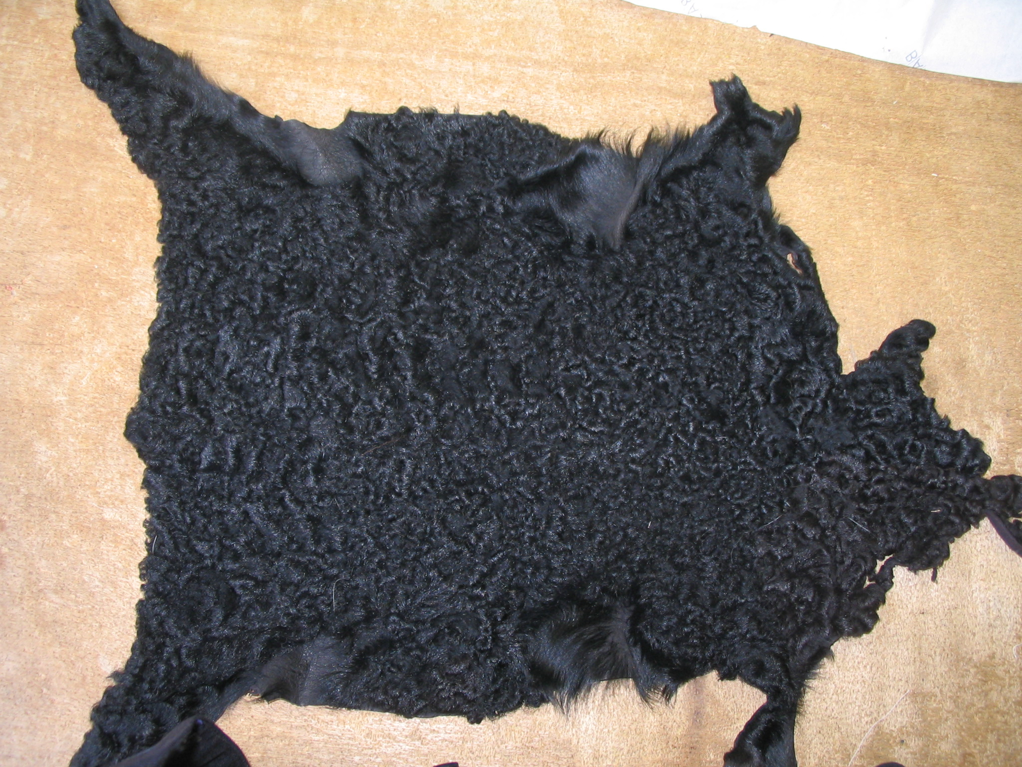 Black dyed Bagdad lamb fur-skin